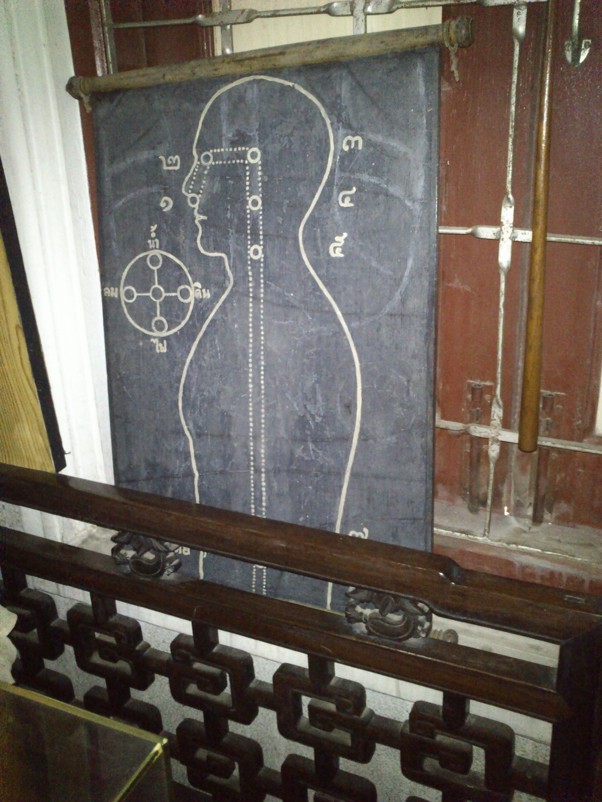 The great abbot of Wat Paknam Bhasicharoen, the late Chao Khun Phramongkolthepmuni, used this blackboard to teach about the seven bases of the mind, fundamental to approaching the Dhammakāya method of meditation.